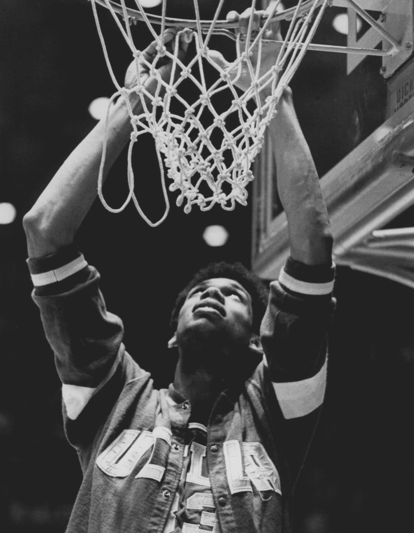 Basketball player Kareem Abdul-Jabbar (then known as Lew Alcindor) removing the net, a ceremonial and commemorative act by the victors of the NCAA Championship.